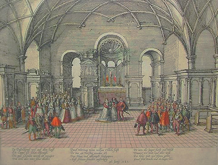 Diederich Graminaeus (1550-1610). Beschreibung derer Fürstlicher Güligscher ec. Hochzeit (Johann Wilhelm von Jülich-Kleve-Berg ∞ Jakobe von Baden-Baden) . Düsseldorf 1585, Nr.